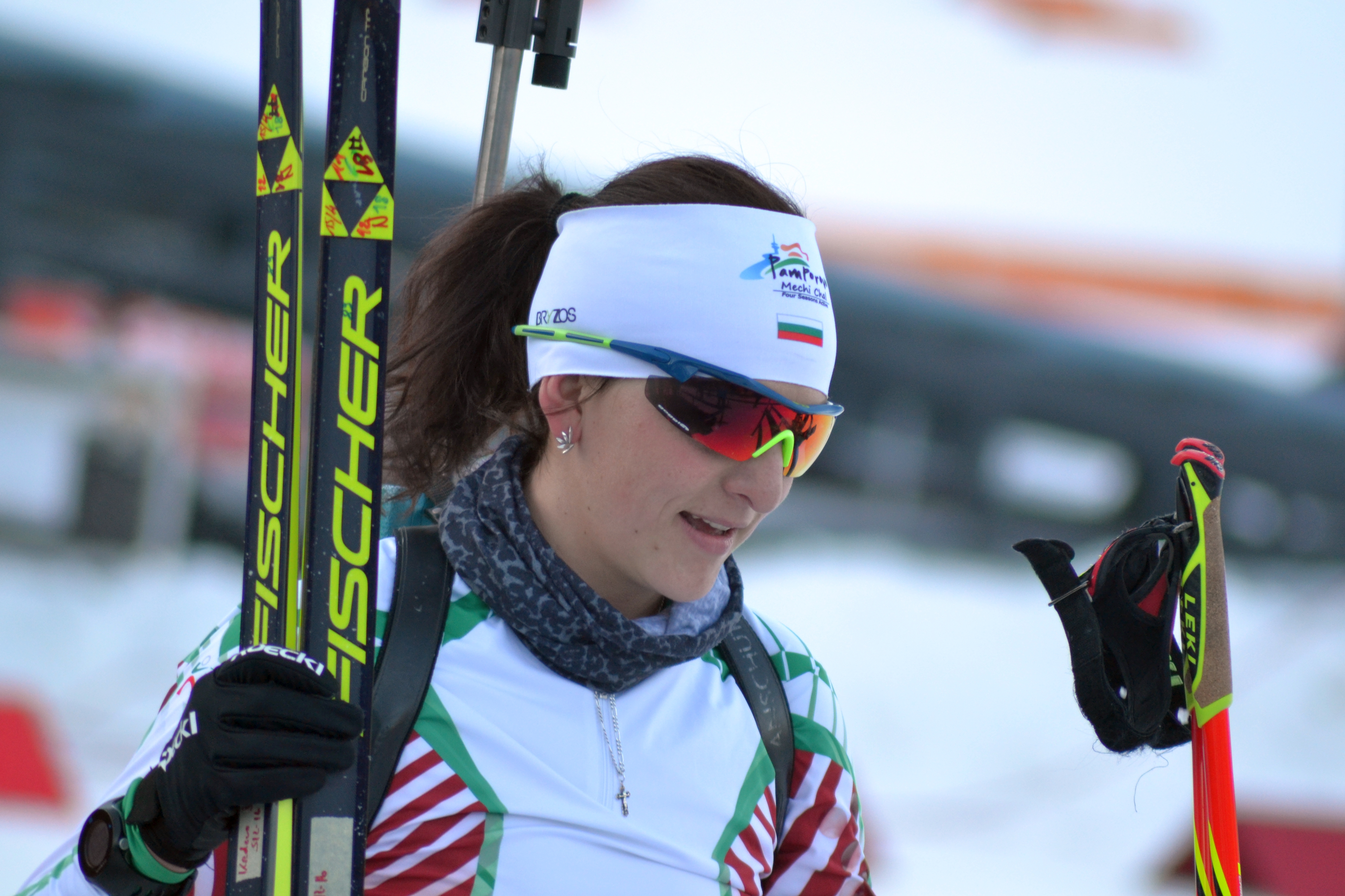 Open European Championships Biathlon 2017, Sprint Women's race, held on January 27th.